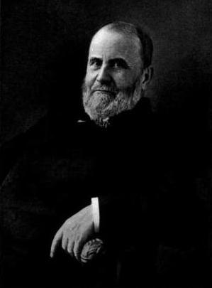 Stephen V. White, Congressman from New York